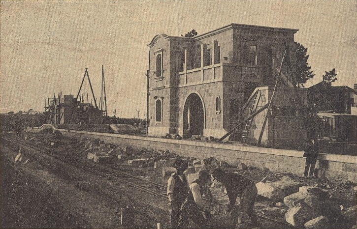 Construction works of the São Mamede de Infesta Railway Station, in the Leixões Railway, in Portugal. This photograph was published on the Gazeta dos Caminhos de Ferro magazine No. 1131, of the 1st February 1935, and scanned by the Hemeroteca Municipal de Lisboa.